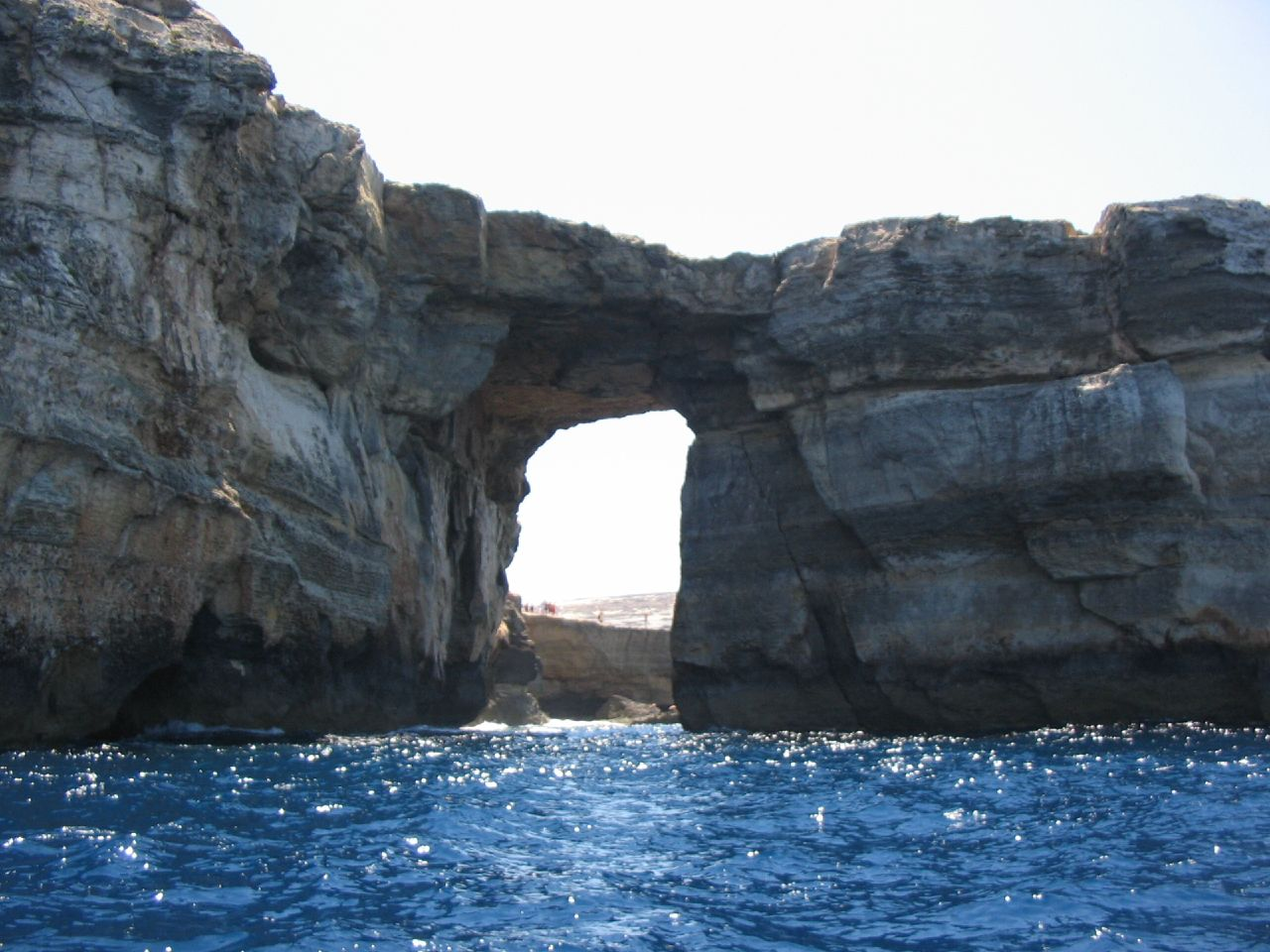 The following is the author's description of the photograph quoted directly from the photograph's Flickr page. "Malta Blue Window "